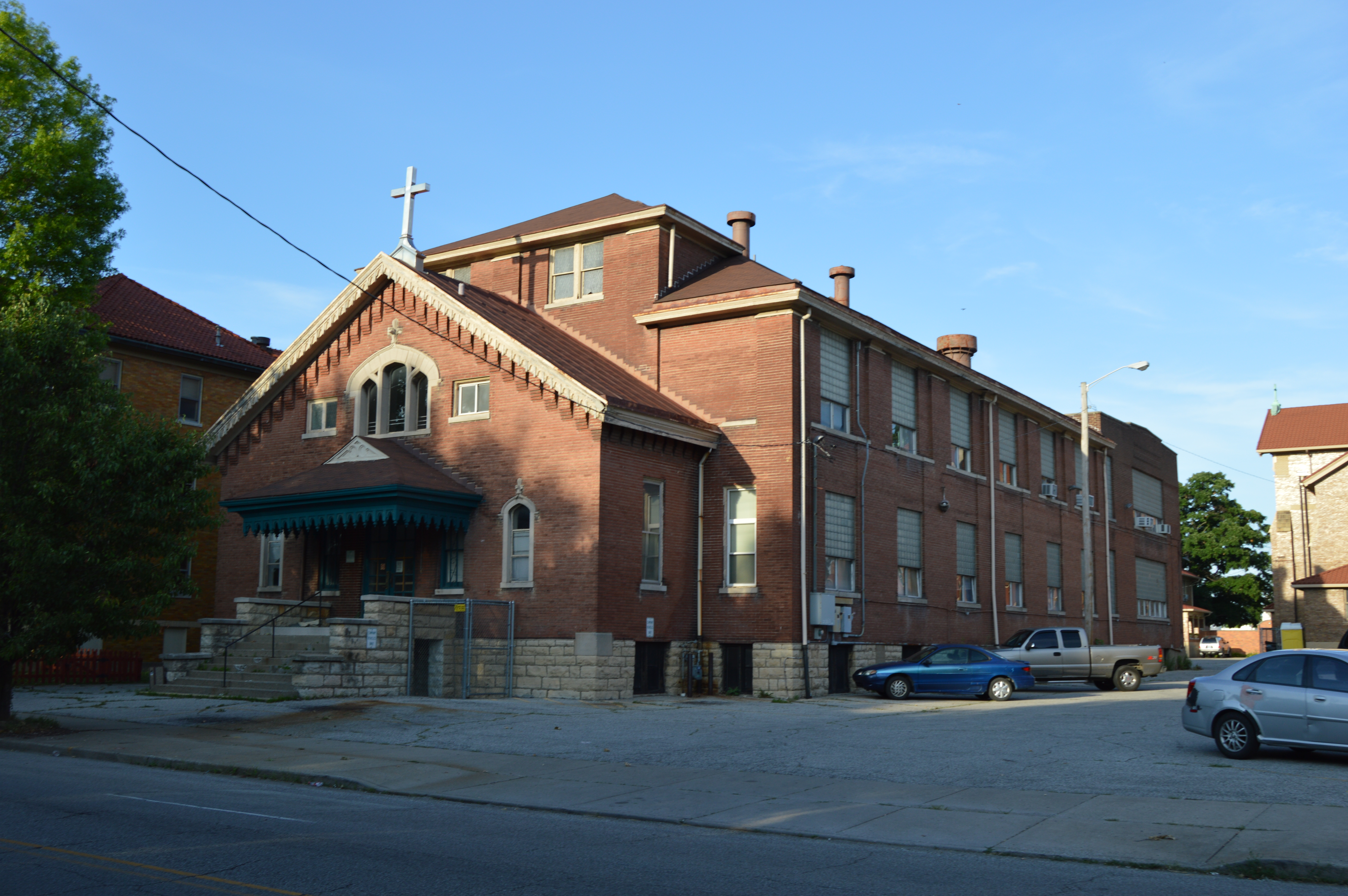 Front and southern side of the Holy Name Catholic School (originally Holy Name Church), located at 2921 S. Fourth Street in Louisville, Kentucky, United States. Built in 1902, it is listed on the National Register of Historic Places along with three other buildings in the church complex.